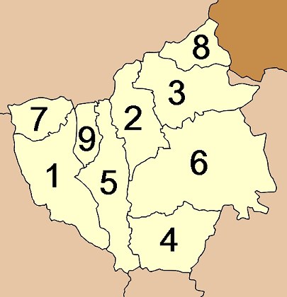 Map of Phayao province, Thailand, with the districts numbered. Mueang Phayao Chun Chiang Kham Chiang Muan Dok Khamtai Pong Mae Chai Phu Sang Phu Kamyao